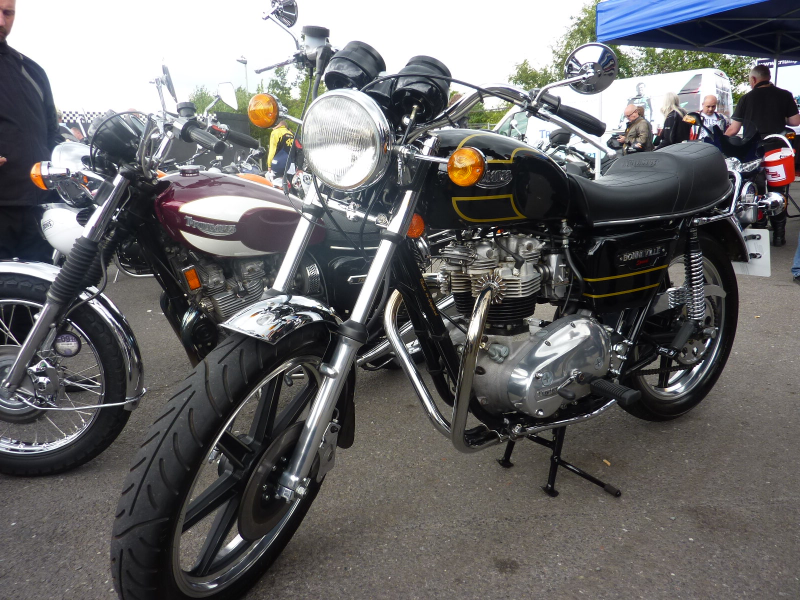 750cc Triumph with Lester cast alloy wheels, siamesed exhaust system and limited edition finish. Currency fluctuations rendered it too expensive and thus not a great seller in the critical target US market.